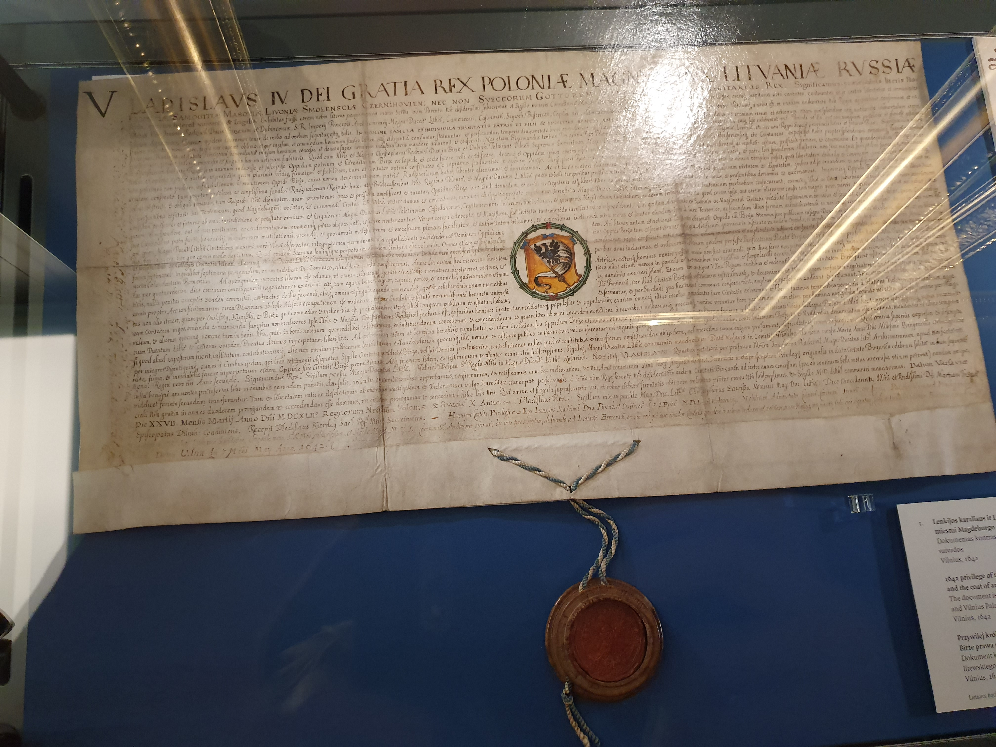 1642 privilege of the King of Poland and Grand Duke of Lithuania Władysław IV Vasa, confirming Magdeburg Law and coats of arms for the city of Biržai. The document is countersigned by the Duke of Biržai, Janusz Radziwiłł (1612–1655) the Lithuanian Grand Hetman and Vilnius palatine. It was signed in Vilnius, in 1642. It was photographed during an exhibition at the Palace of the Grand Dukes of Lithuania.